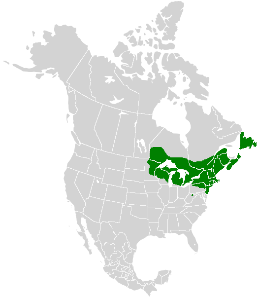 A range map showing the distribution of the Bog Copper (Lycaena epixanthe).